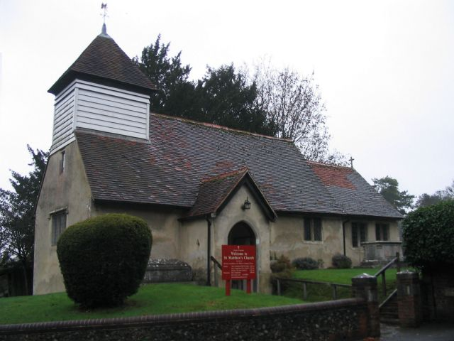 St Matthew's Church, Weeke The church was restored in 1495 and seems to have been scarcely touched by the Victorians.